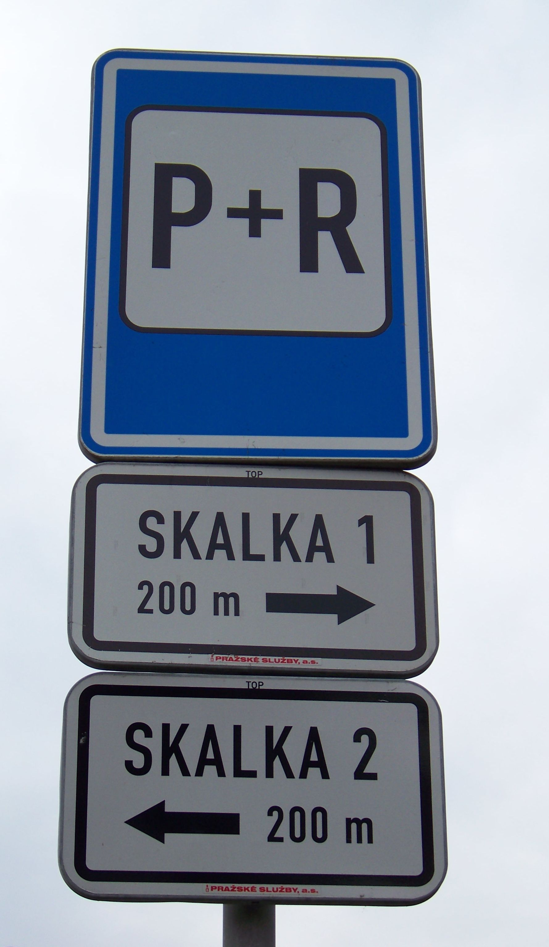 Prague-Strašnice, the Czech Republic. Úvalská street, Park and Ride sign.